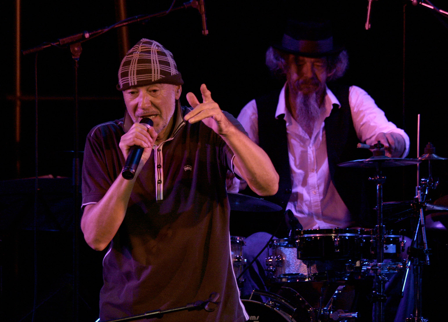 Stubnblues concert at the Metropol in Vienna